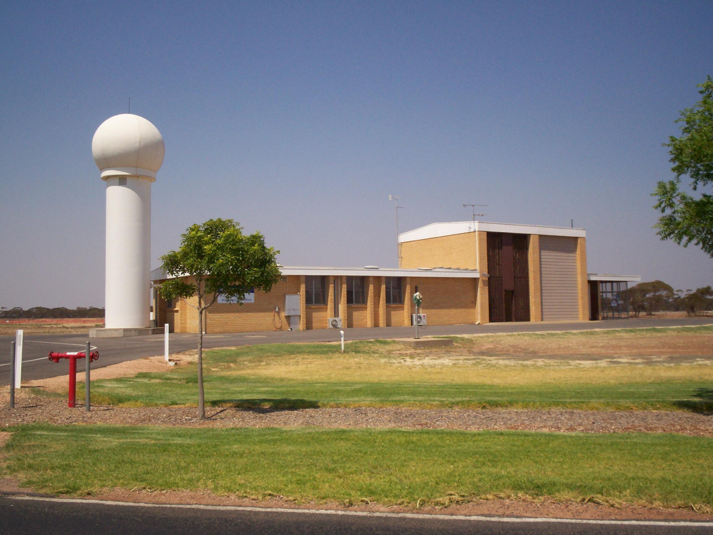 Weather station at Mildura Airport (MQL), Mildura, Victoria. Photograph taken by myself, January 15, 2007 Licensing Category:Images of Victoria